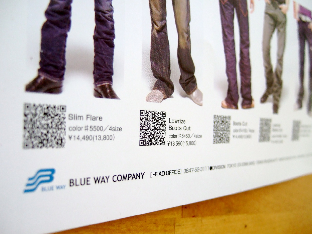 A Japanese advertising poster containing QR codes. The content of the code in focus is MEBKM:TITLE:ＳＥＡＳＯＮ;URL:http\://bwstore.shop